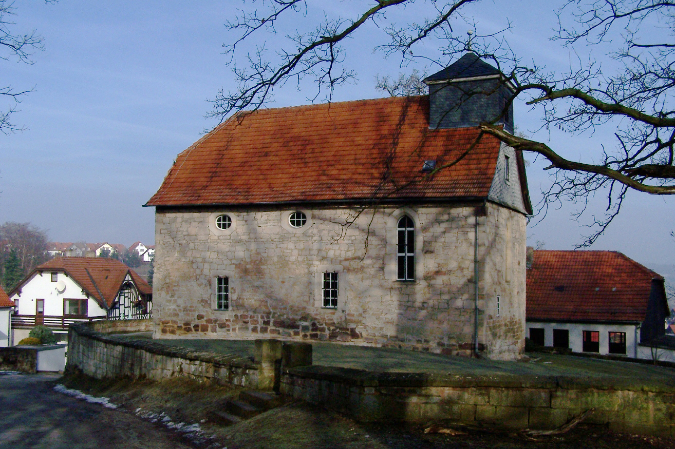 St.Amalien church in Immelborn.